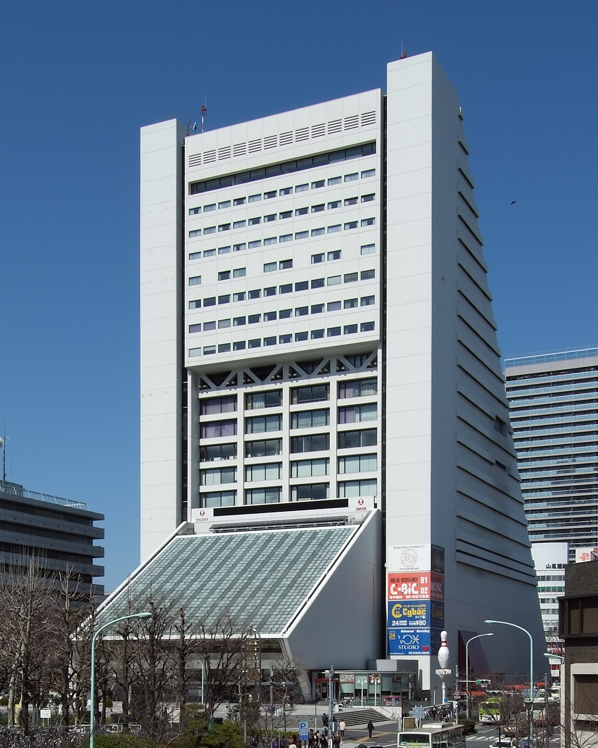 Nakano Sunplaza, at Nakano-ku Tokyo Japan, design by Nikken Sekkei.